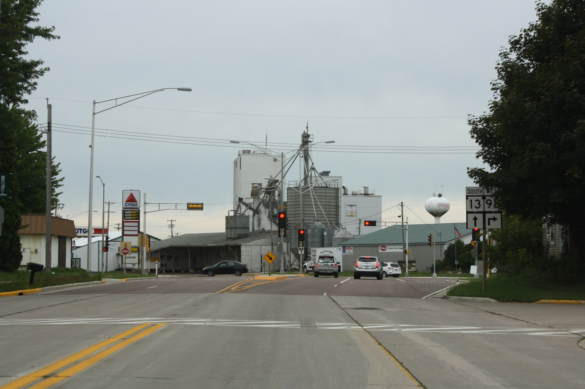 Looking south at downtown Spencer, Wisconsin on Wisconsin Highway 13 / Wisconsin Highway 98.